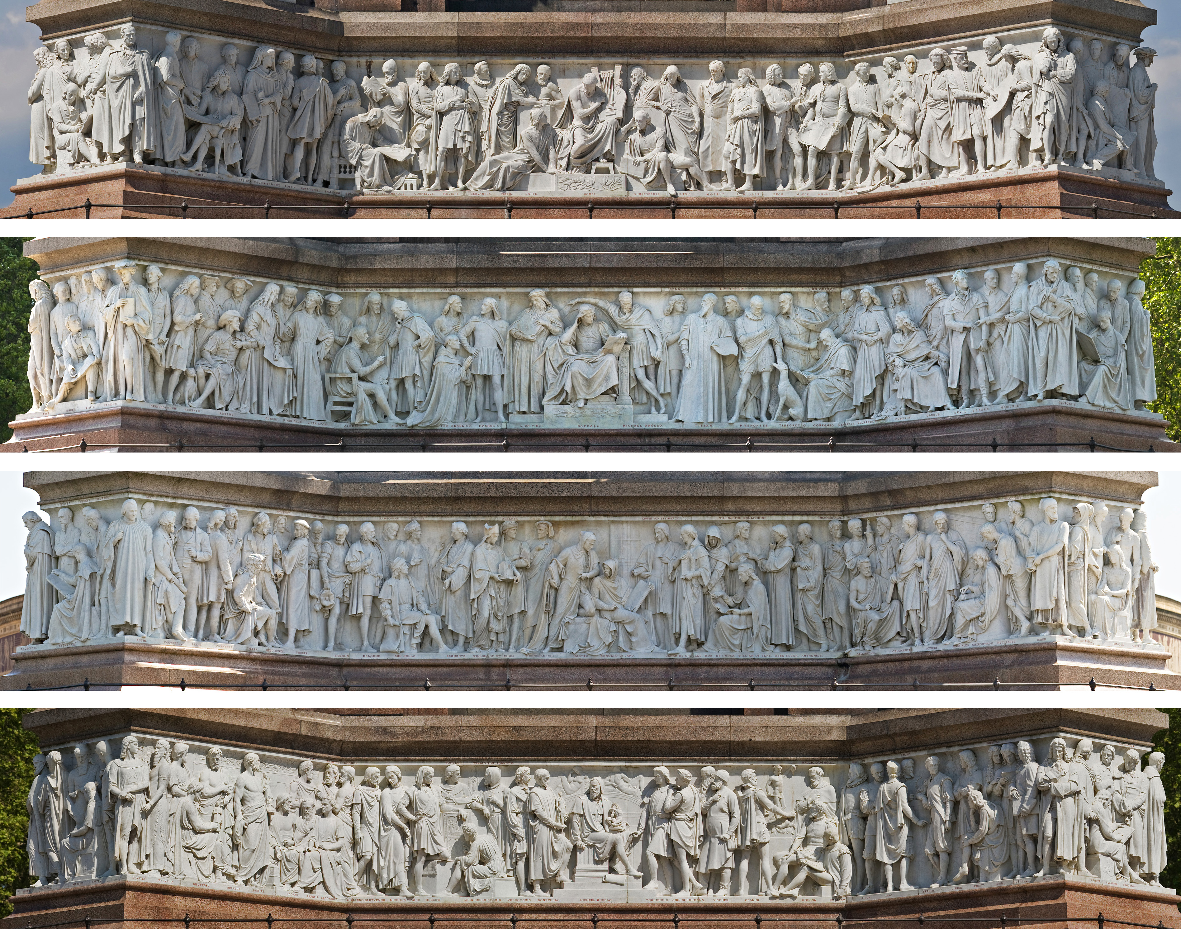 A collage of 4 four-segment panoramic images of The Albert Memorial Frieze (Frieze of Parnassus). The Frieze of Parnassus circles the base of the Albert Memorial in London and consists of 169 life-size full-length sculptures of individual composers, architects, poets, painters, and sculptors from history. The total length of the frieze is around 210 feet. The image depicts from top: South side: musicians and poets East side: painters North side: architects West side: sculptors Taken by myself with a Canon 5D and 70-200mm f/2.8L at 200mm.